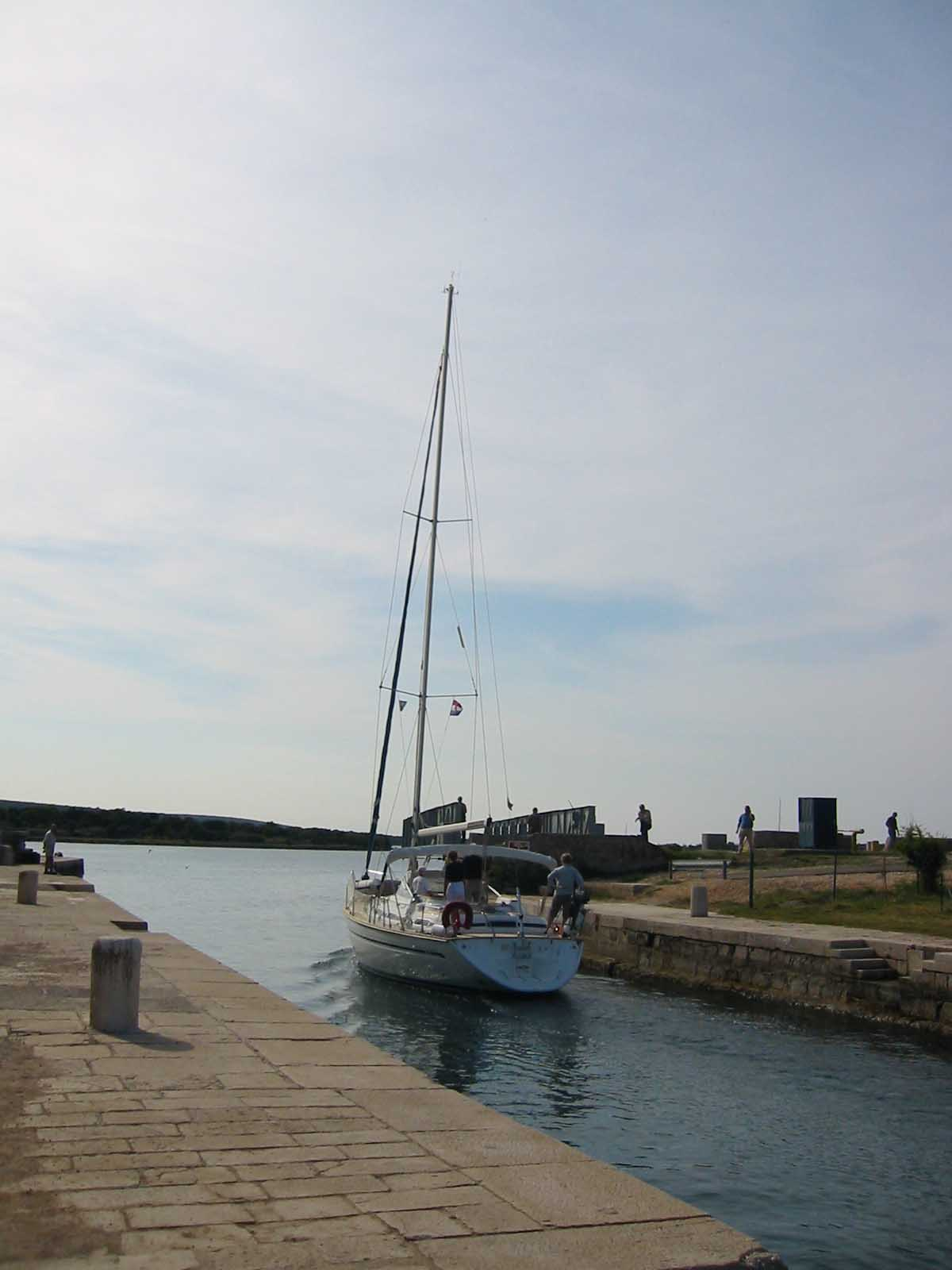 Osor channel between islands Lošinj and Cres, Croatia. photo:Ziga 12:53, 11 April 2007 (UTC)